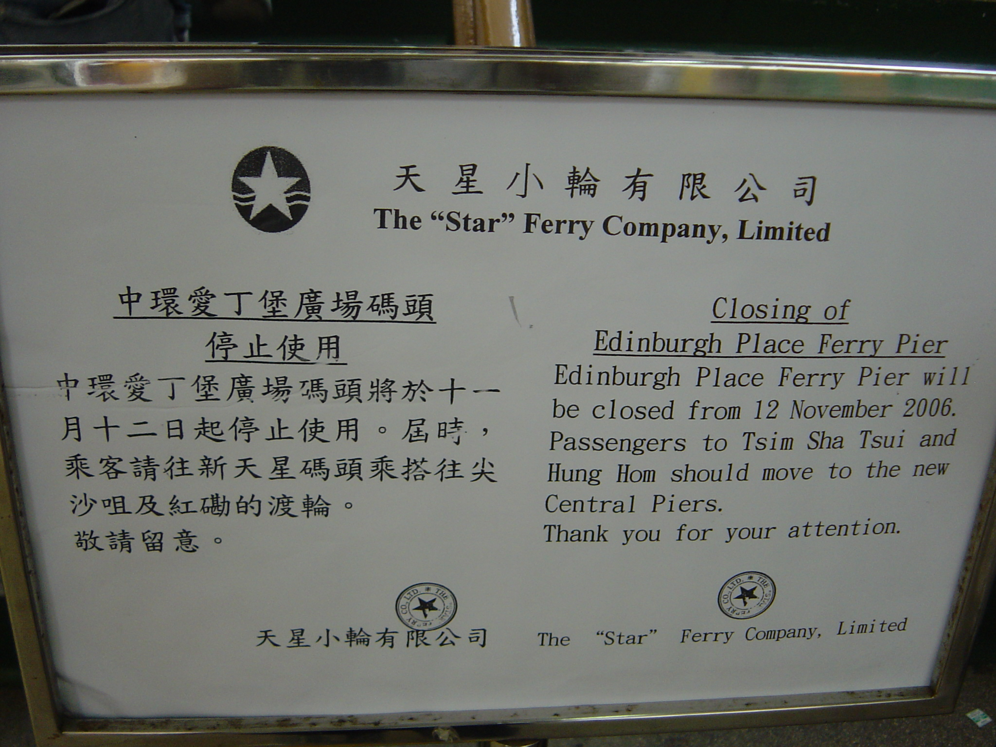 香港第三代中環天星碼頭運作的最後一天－－碼頭停用告示。Captured at last day of 3rd Central Star Ferry Pier, Hong Kong.